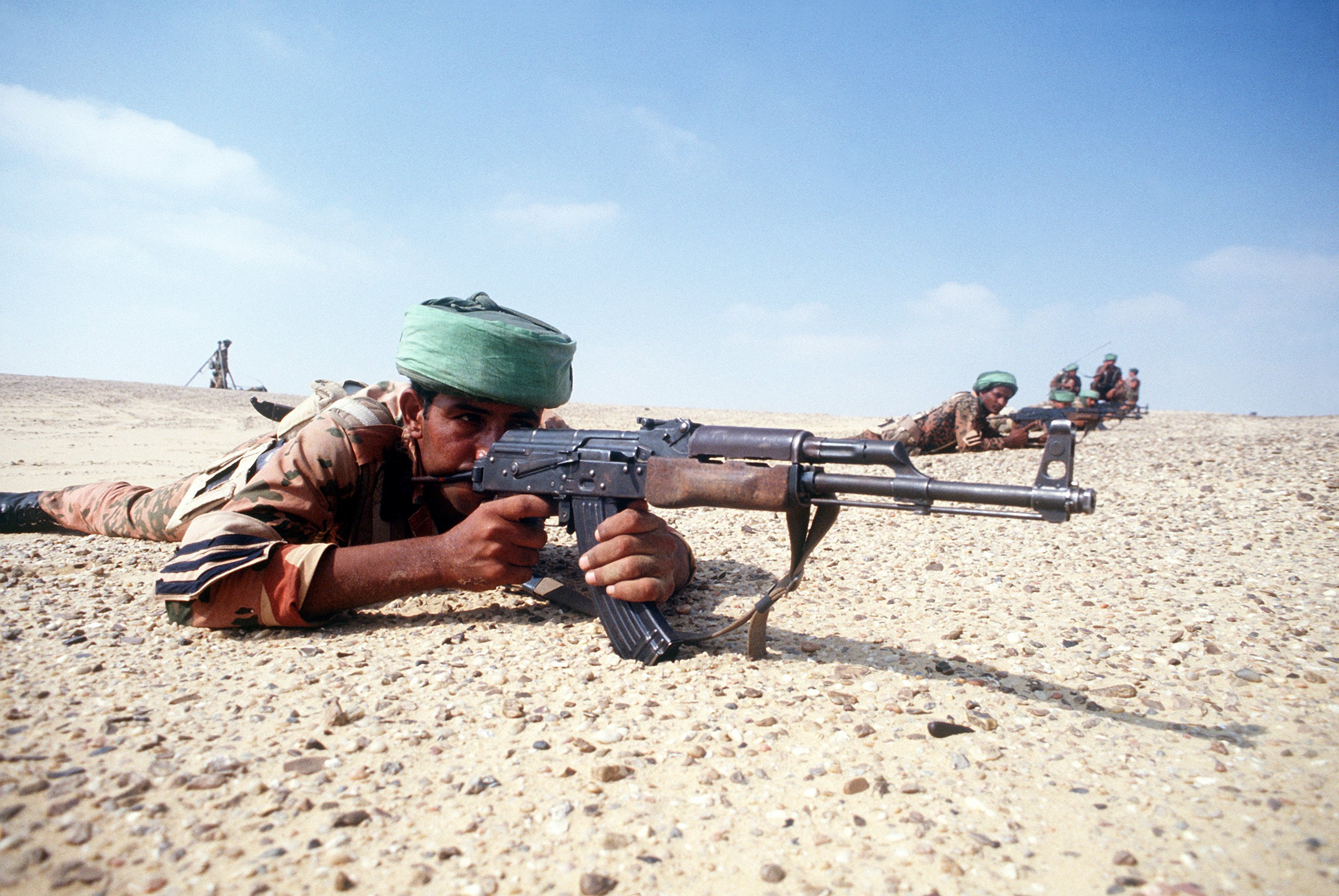 Egyptian soldiers, armed with Soviet designed AKM assault rifles, maintain a perimeter during the joint Exercise Bright Star '83.